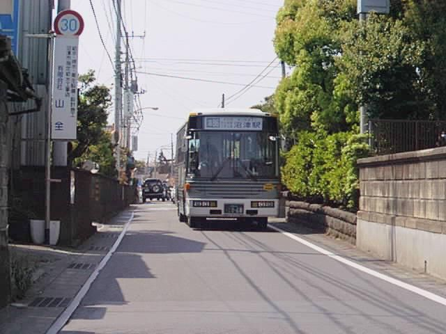 Fujikyu City Bus Negata Line (now transferred to Fujikyu Shizuoka Bus) in Aono, Numazu City, Shizuoka Prefecture, Japan